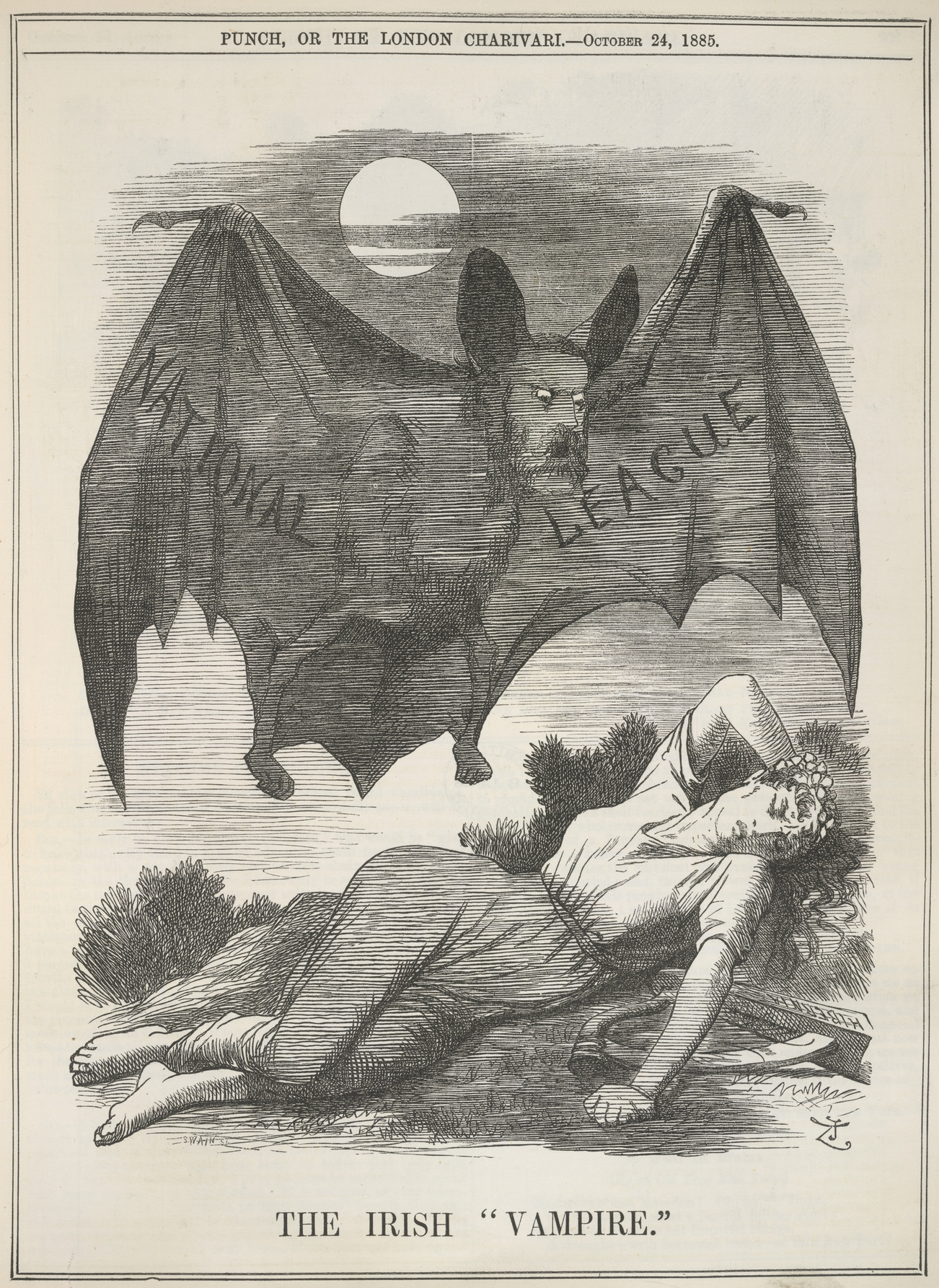 An illustration depicting a large Vampire bat hovering over a prostrate woman. The words 'National League' can be seen on the inside of the wings of the bat.